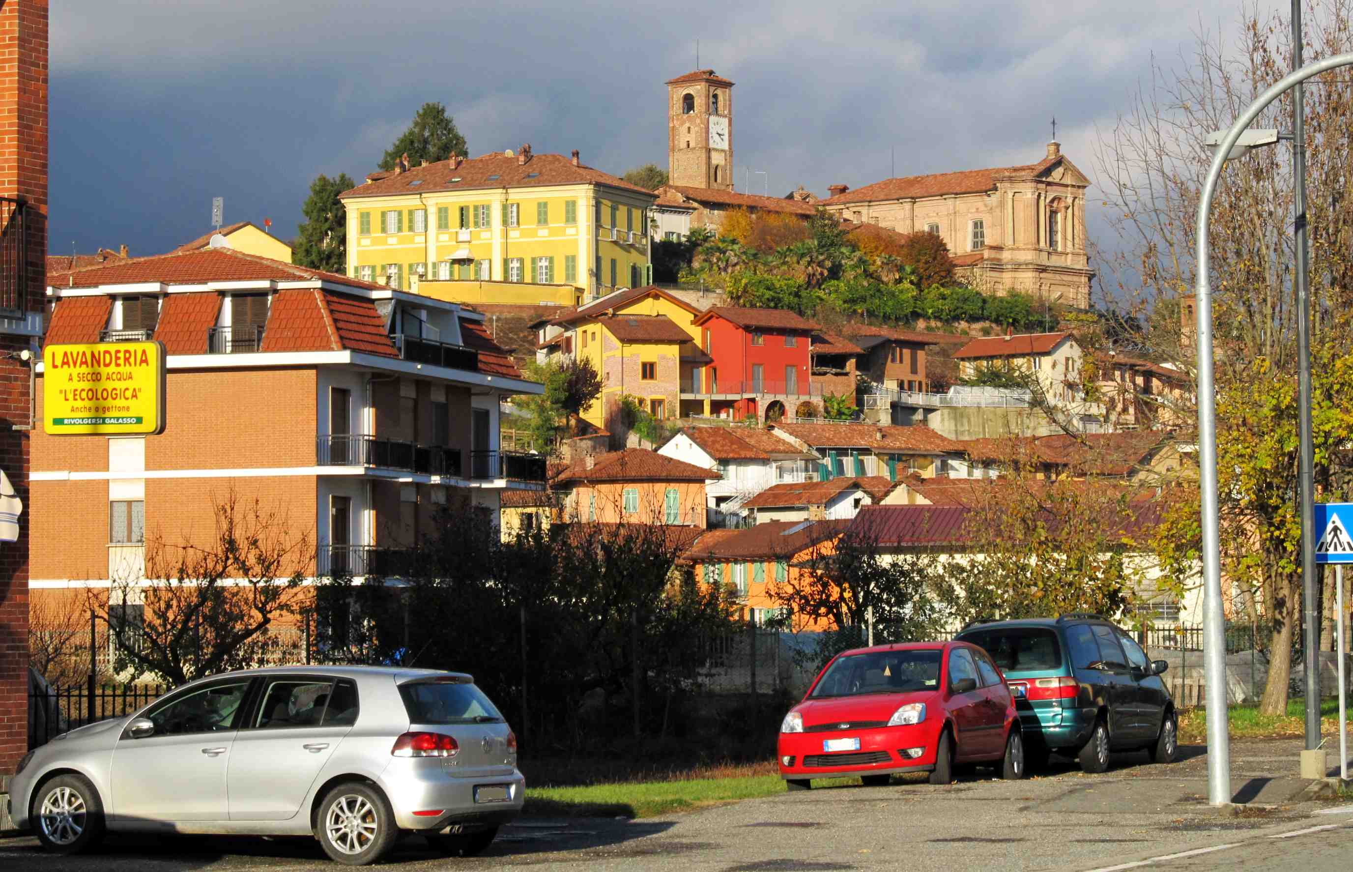 Andezeno (TO, Italy): panorama from SP Chieri-Castelnuovo Don Bosco